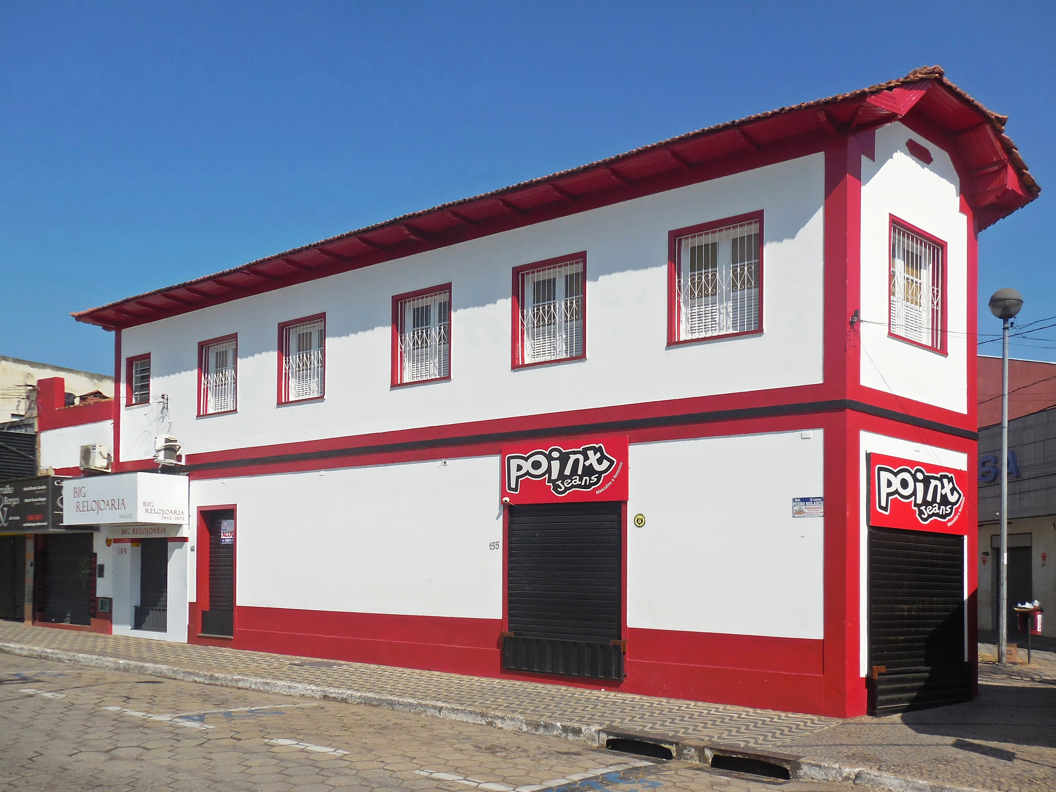 The "Sobrado dos Pereira" (Pereira´s House), in Coronel Fabriciano, Minas Gerais, Brazil.